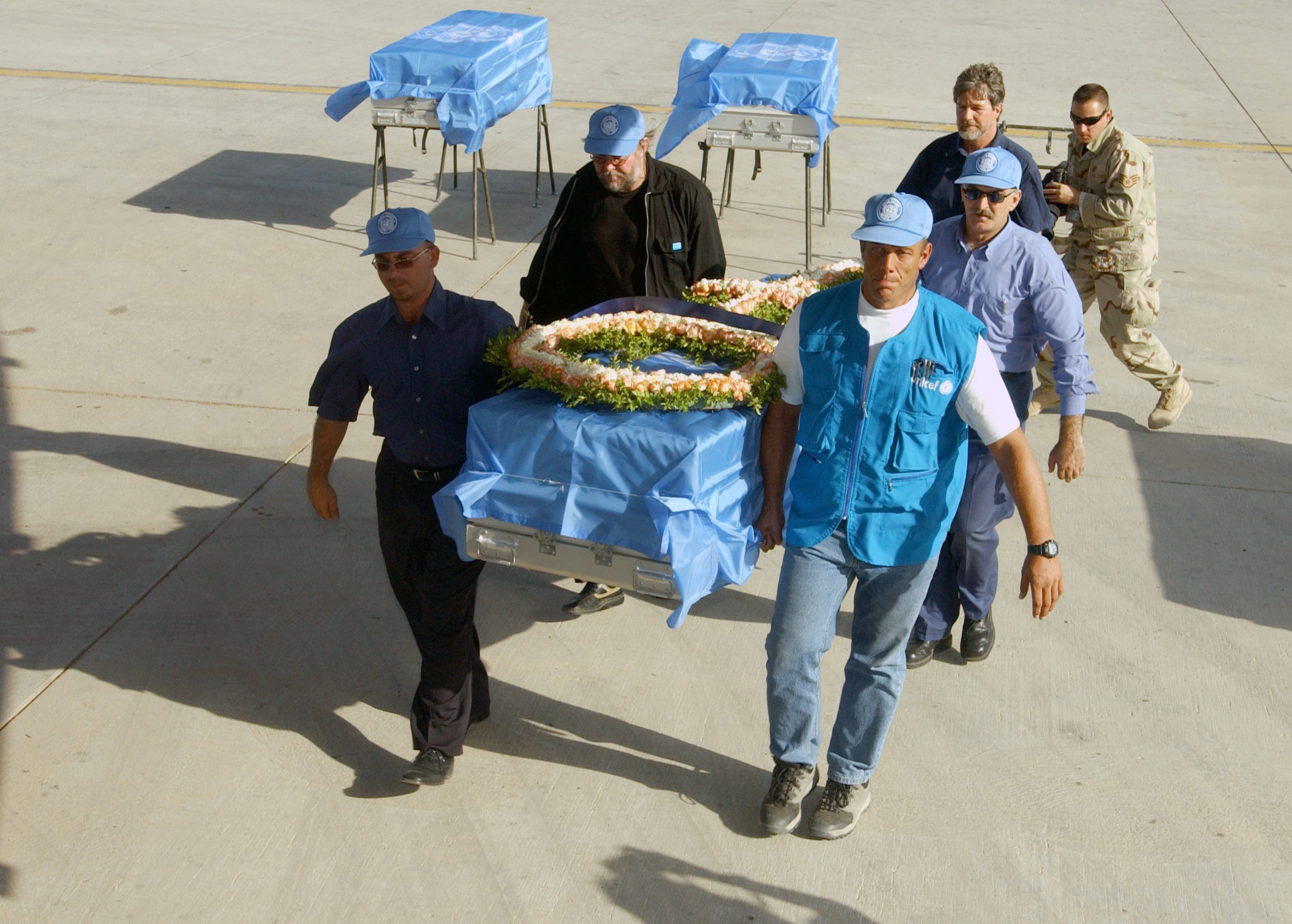 United Nations (UN) members prepare to load flag draped metal transfer cases, carrying the remains of bombing victims from the UN Office of Humanitarian Coordinator for Iraq (UNOHCI), onto an aircraft during a ceremony held at Baghdad International Airport. The bombing victims remains will be airlifted to their respective home countries for repatriation.